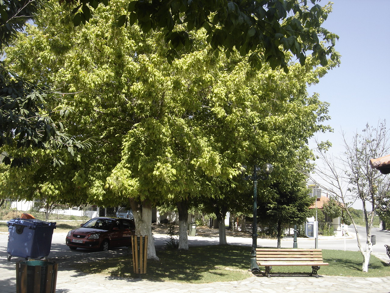 The square at Platanakia, Pieria.